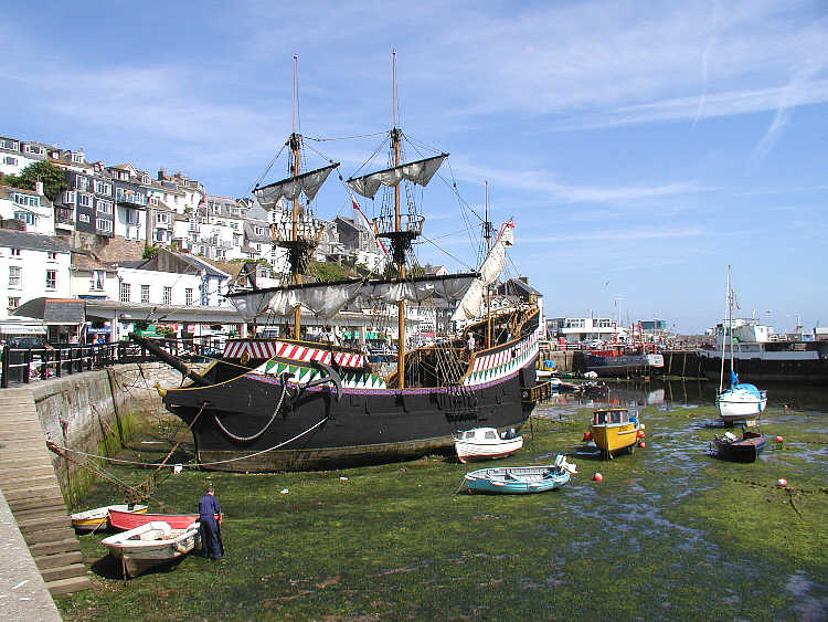 A replica of Sir Francis Drake's ship - the Golden Hind - lying permanently in Brixham Harbour. The original ship, with a crew of 80 sailors and 10 officers, circumnavigated the globe between 1577 and 1580. Five ships set out - Pelican, Elizabeth, Swan, Marigold and Benedict. During the voyage the Pelican was renamed the Golden Hind in honour of his friend Christopher Hatton whose crest featured a hind (a deer). Sir Francis brought home looted gold, silver, jewels and cash worth 25 million pounds in today's (2003) money. Only two of the ships returned, the Golden Hind and the Elizabeth. Taken by Adrian Pingstone in July 2003 and released to the public domain.